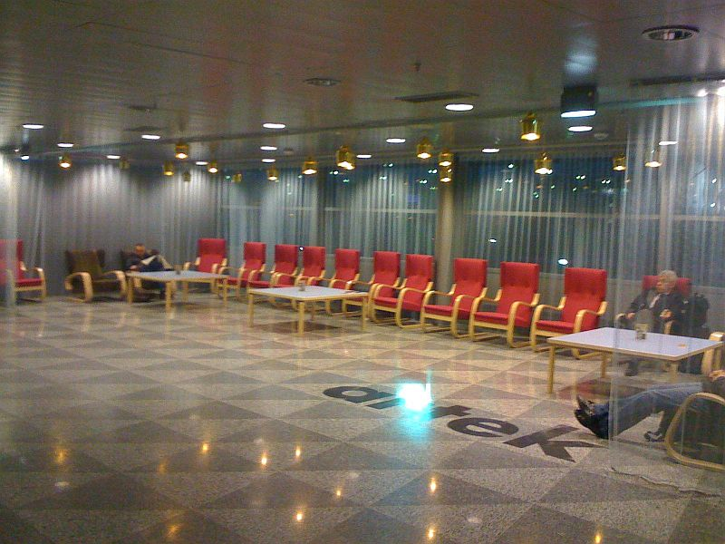 Departure lounge at Helsinki-Vantaa Airport in Vantaa, Finland